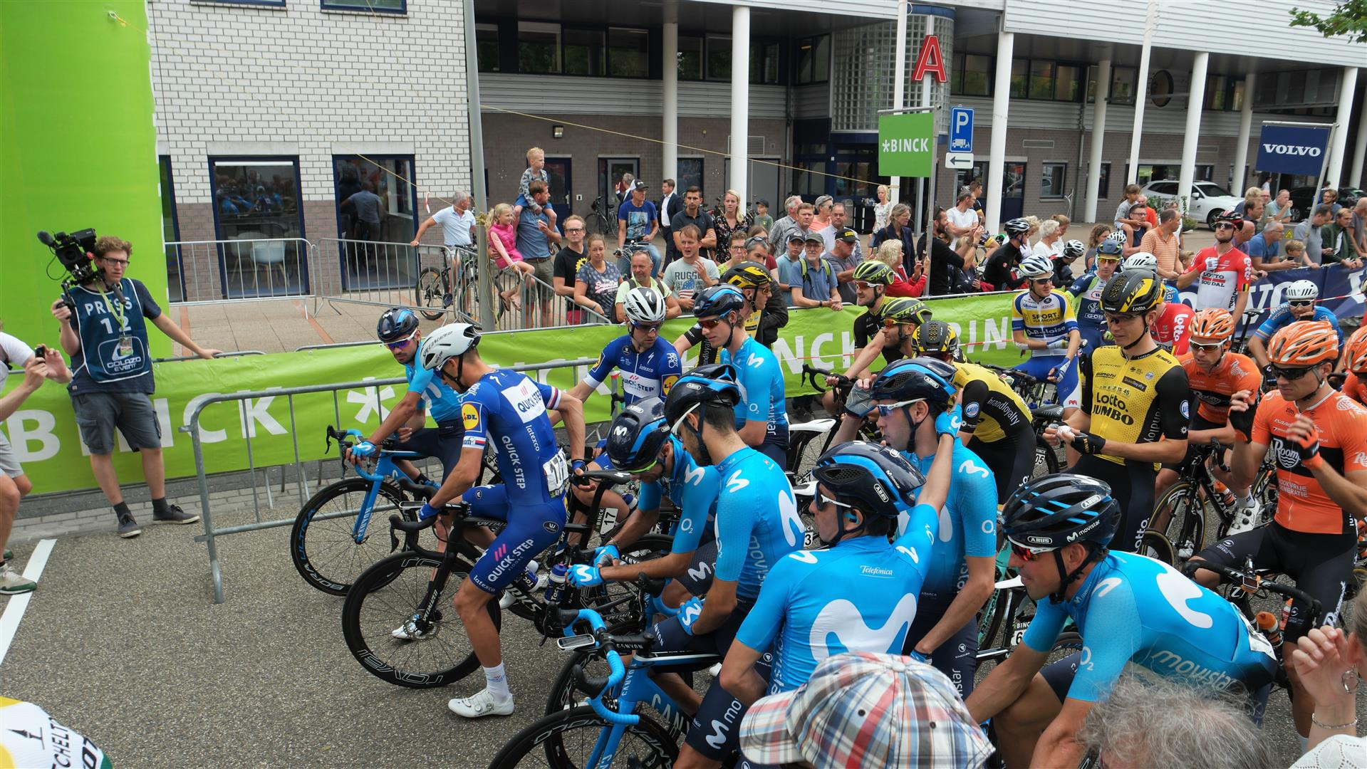 BinckBank Tour 2018, Heerenveen, start Abe Lenstra Stadion